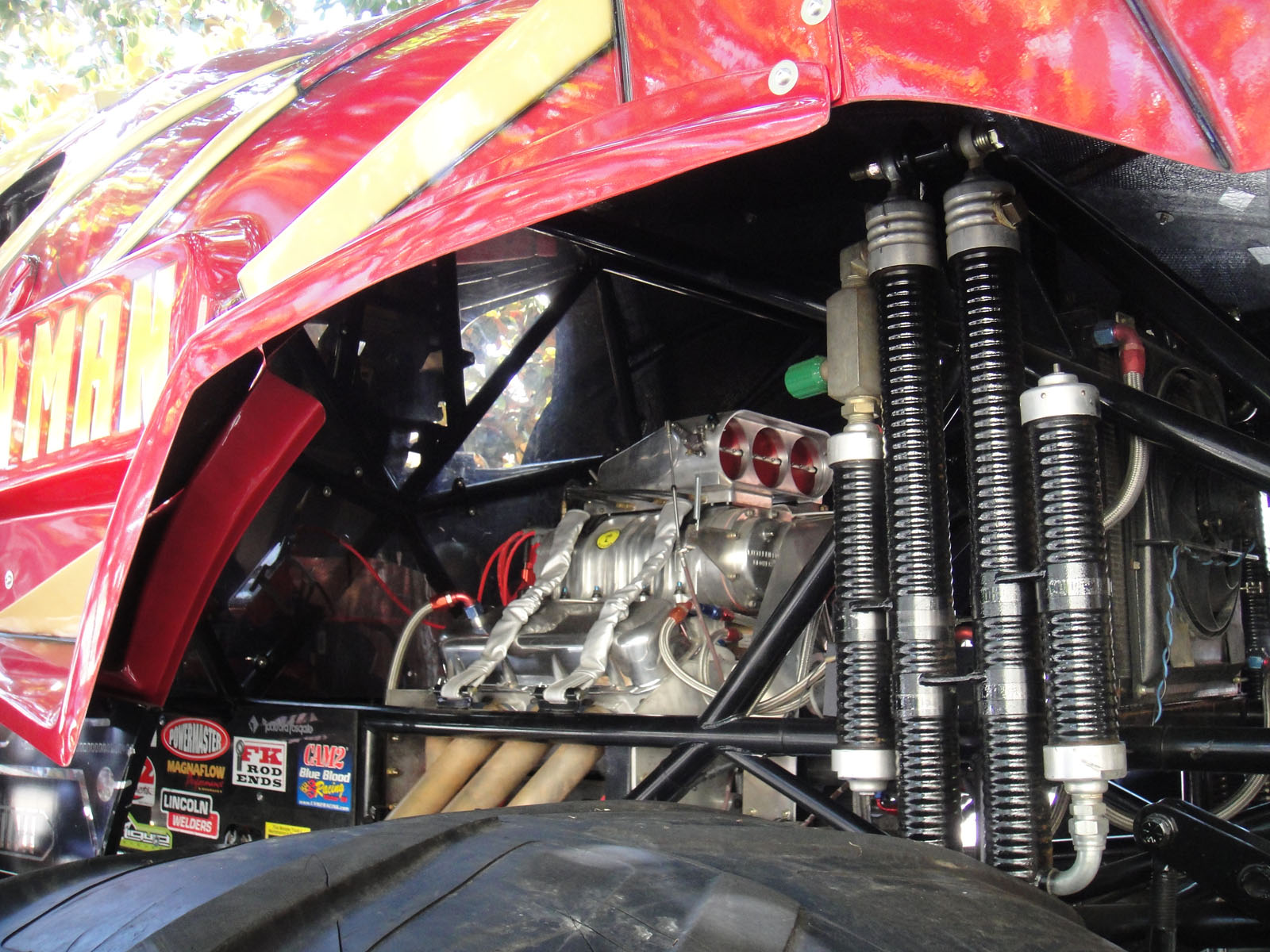 San Diego Comic-Con 2011 - under the hood of the Iron Man Monstergeddon monster truck